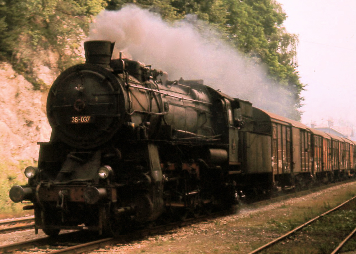 Prussian G12 as JZ (Jugoslav Railways) Class 36 on a southbound freight at Bled Jezero station